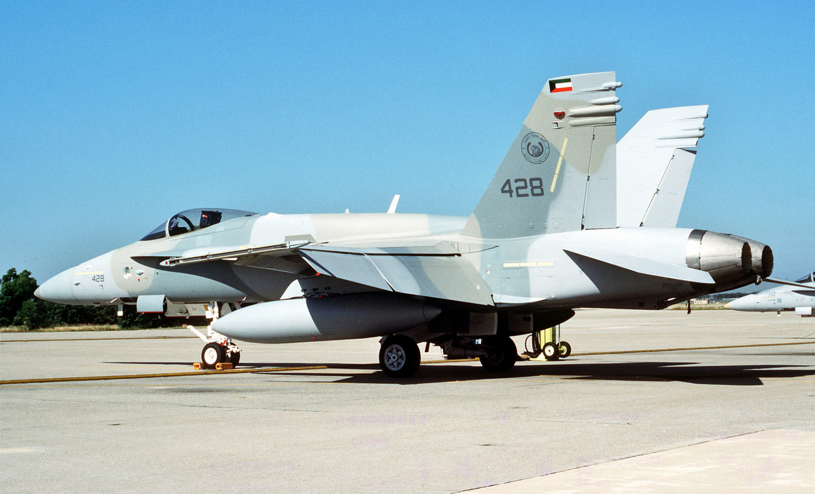 A camouflaged F-18C Hornet aircraft of the Kuwaiti Air Force parked on the flight line. The aircraft was to be delivered to Kuwait by pilots of Marine Fighter Attack Squadron 321 (VMFA-321).